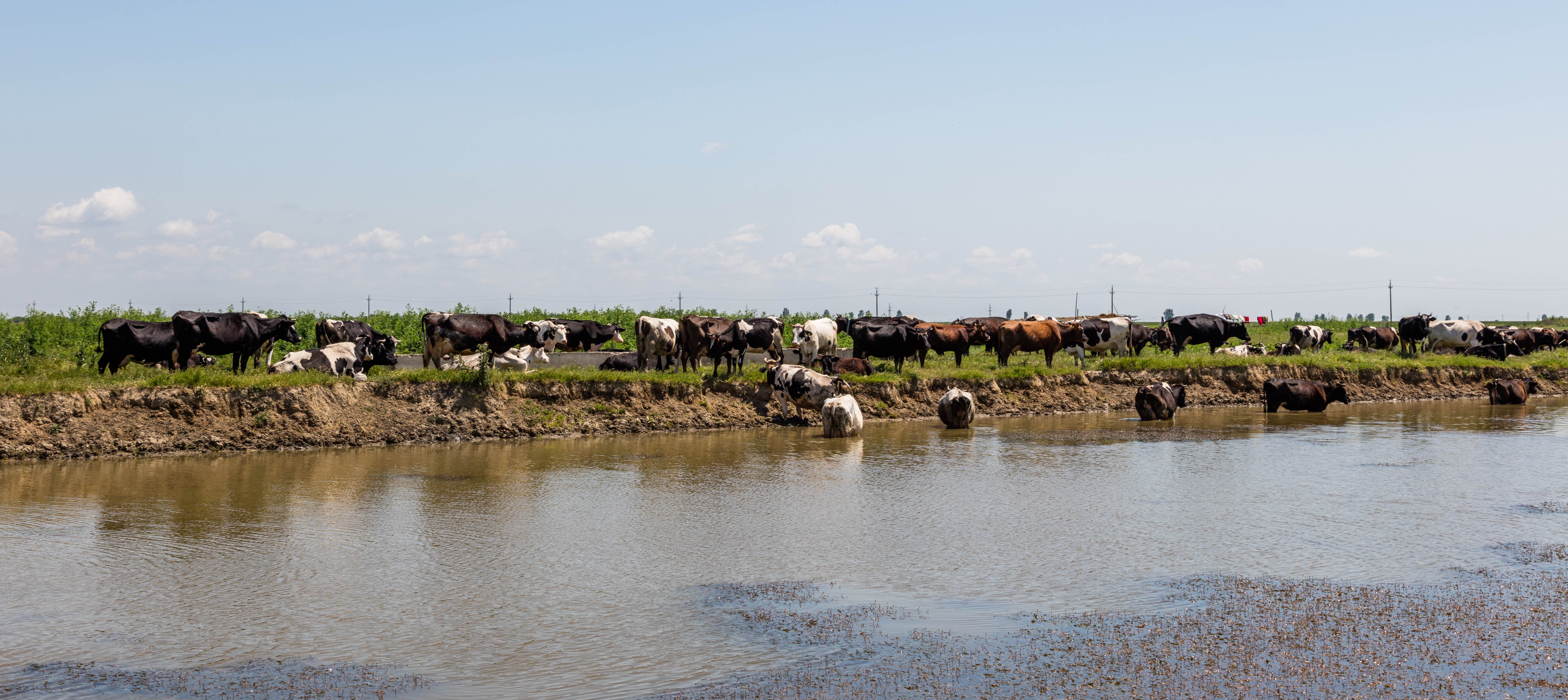 Bruzau river, Surdila Greci, Romania